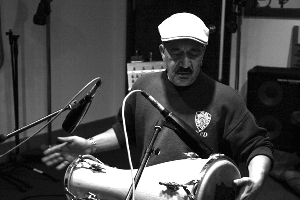 Studio Time with Milton Cardona (2007)